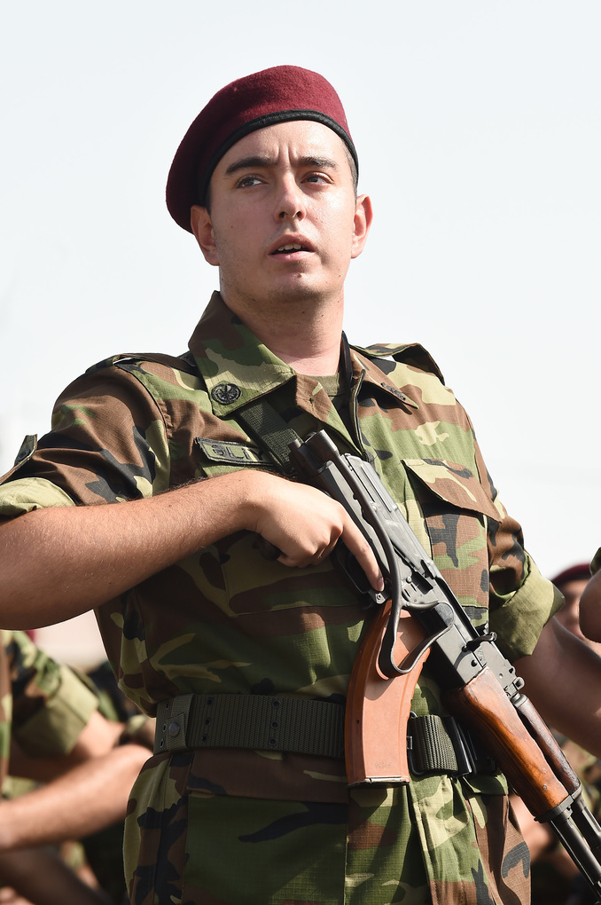 Heydar Aliyev at an oath taking ceremony for the State Security Service of the Republic of Azerbaijan.